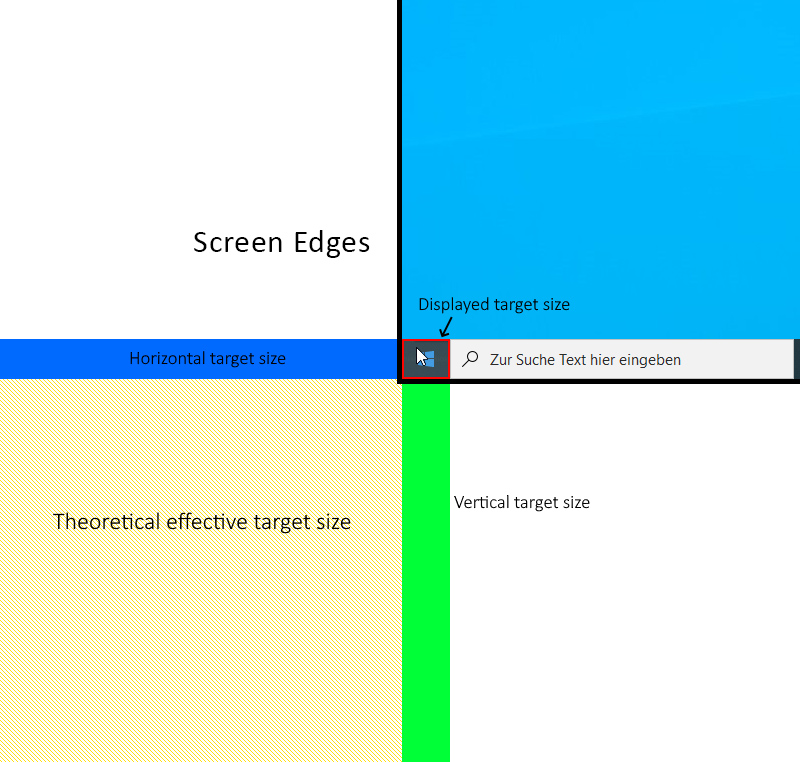 Picture showing the Magic Corners concept used in UI-Design. The picture has an Englisch caption.